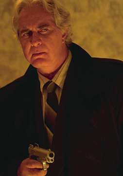 Rogelio Guerra.